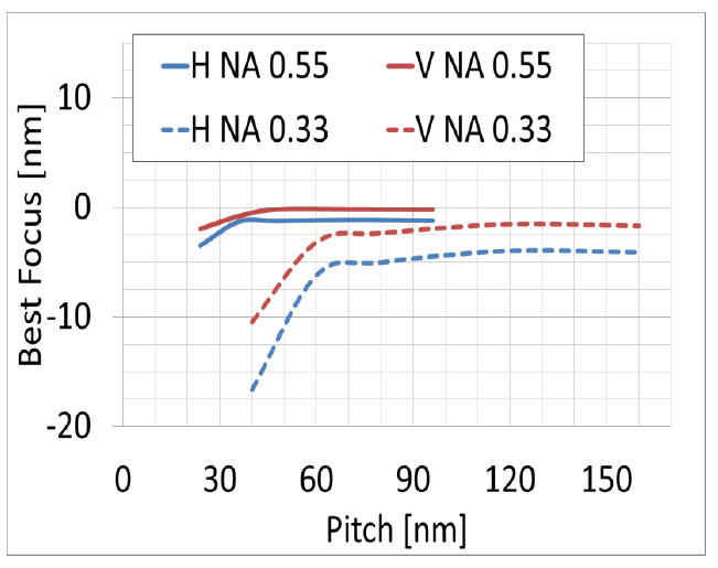 Best focus position for horizontal (H) and vertical (V) spaces as a function of pitch and NA (space width = 20 nm for NA=0.33, 12 nm for NA=0.55). A small annular illumination source is used. Ref.: J. van Schoot et al., 2016 EUVL Workshop, slide 19.